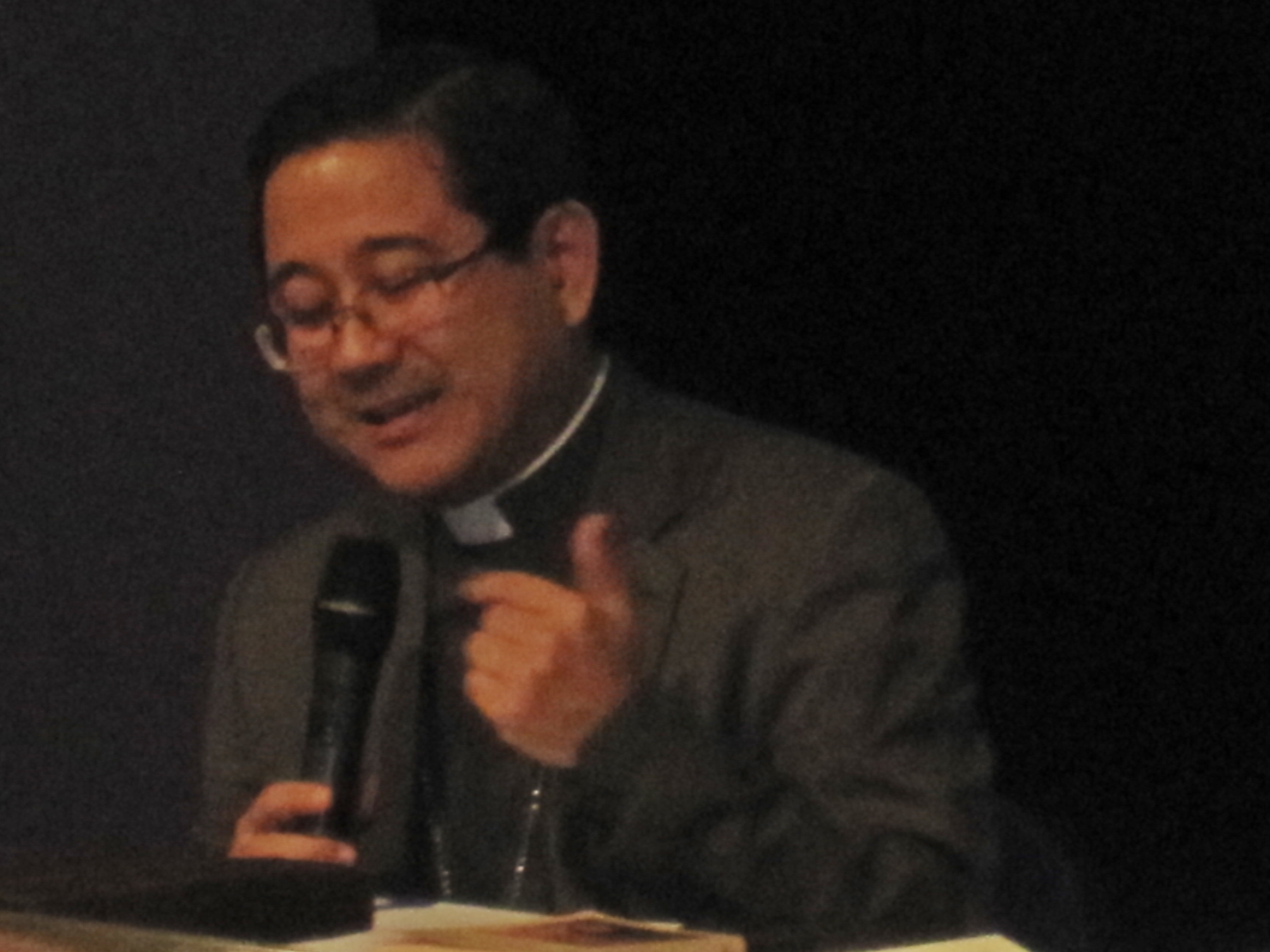 Bishop Júlio Endi Akamine at Faculdade Cásper Líbero in São Paulo, São Paulo, Brazil, delivering a speech about religion and terrorism.